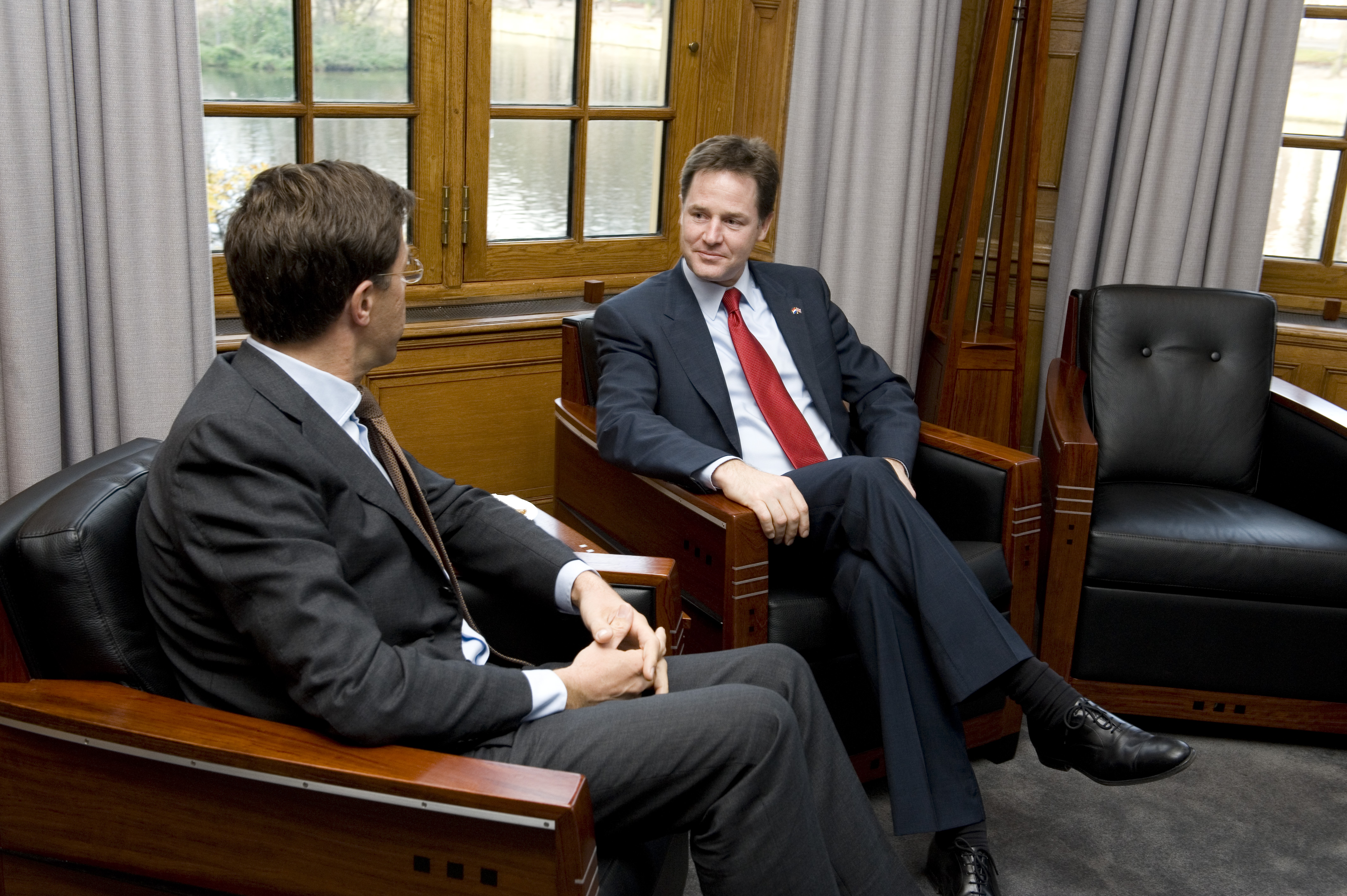 15-11-2010. Discussion between Dutch PM Mark Rutte and the Deputy Prime Minister of the United Kingdom Nick Clegg during a visit to the Netherlands